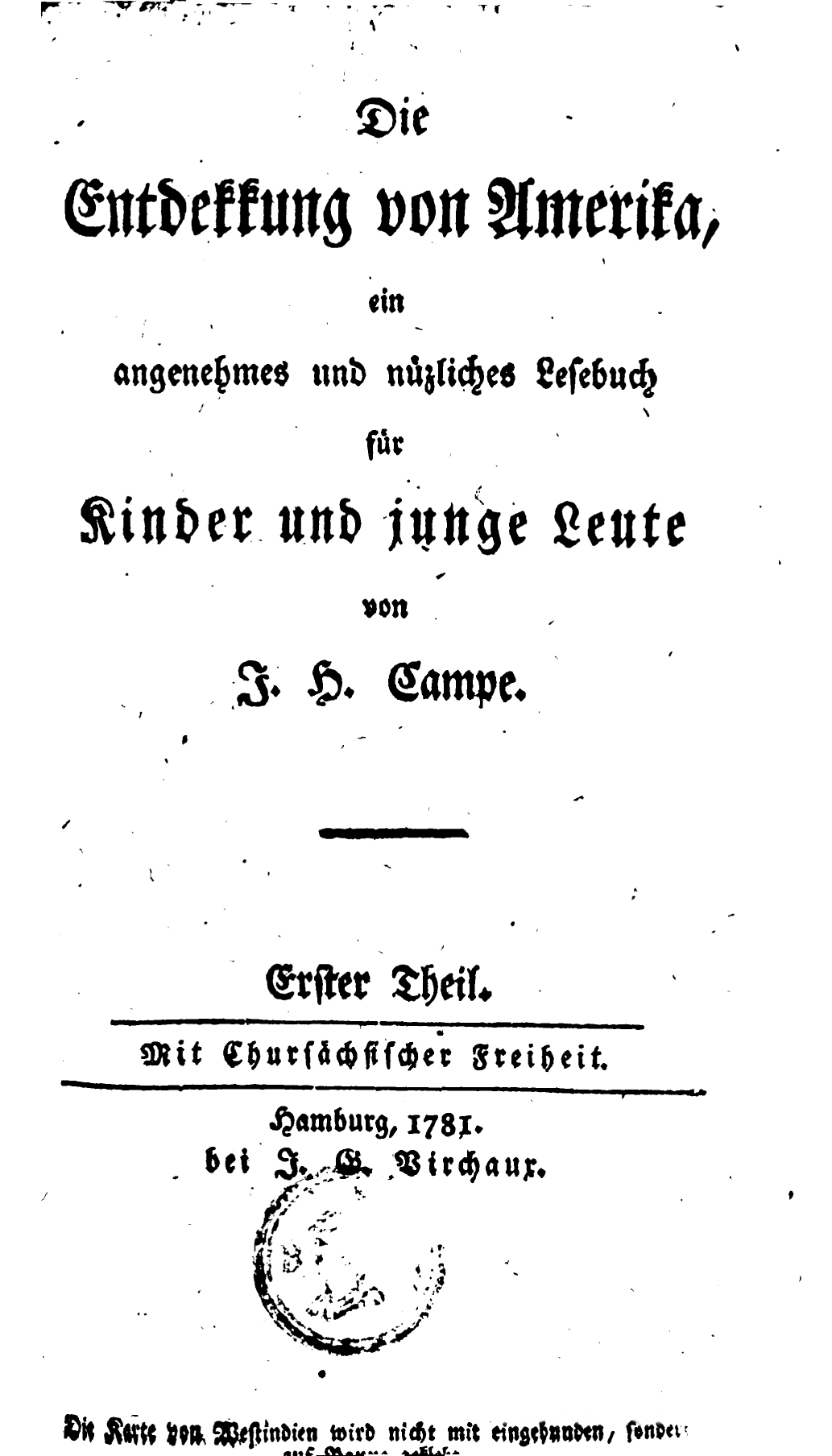 Title page of Campe, Joachim Heinrich (1781) Die Entdekkung von Amerika : ein angenehmes und nützliches Lesebuch für Kinder und junge Leute, Hamburg: J. G. Birchaux. From Google Books; copyrighted Google watermark removed.